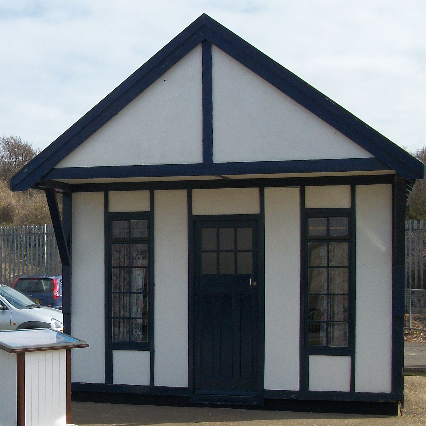 One of Butlins original chalets at Butlins Skegness, Ingoldmells near Skegness, Lincolnshire, England.